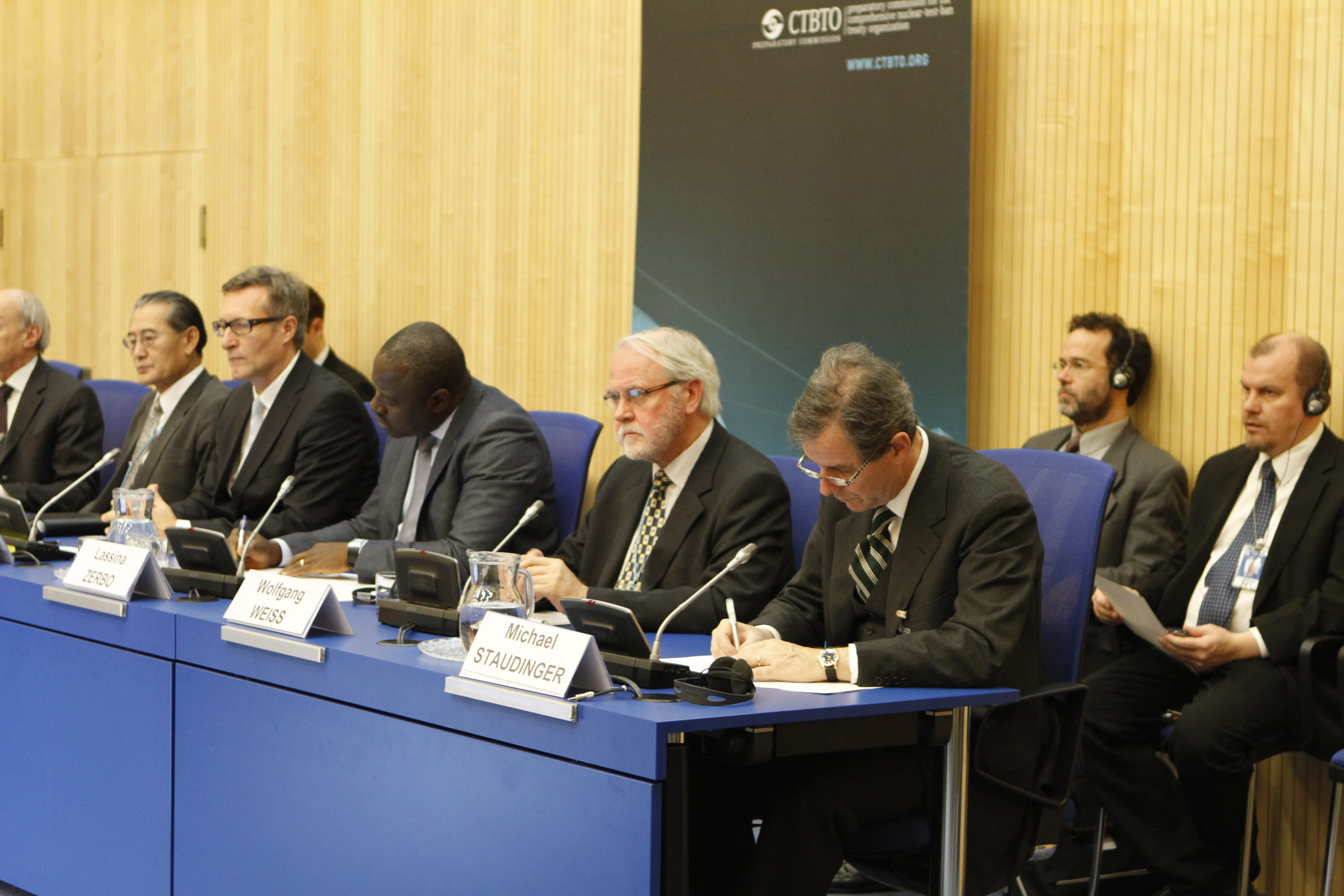 The speakers' panel. From left to right: Ambassador Toshiro Ozawa, Permanent Representative of Japan to the United Nations in Vienna Tibor Tóth, Executive Secretary of the CTBTO Dr. Lassina Zerbo, Director of the International Data Centre at the CTBTO Prof. Wolfgang Weiss, Chair of United Nations Scientific Committee on the Effects of Radiation (UNSCEAR) Dr. Michael Staudinger, Permanent Representative of Austria to the World Meteorological Organization (WMO)